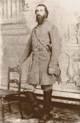 Col. Peter Alexander Selkirk McGlashan, 50th Georgia Infantry CSA